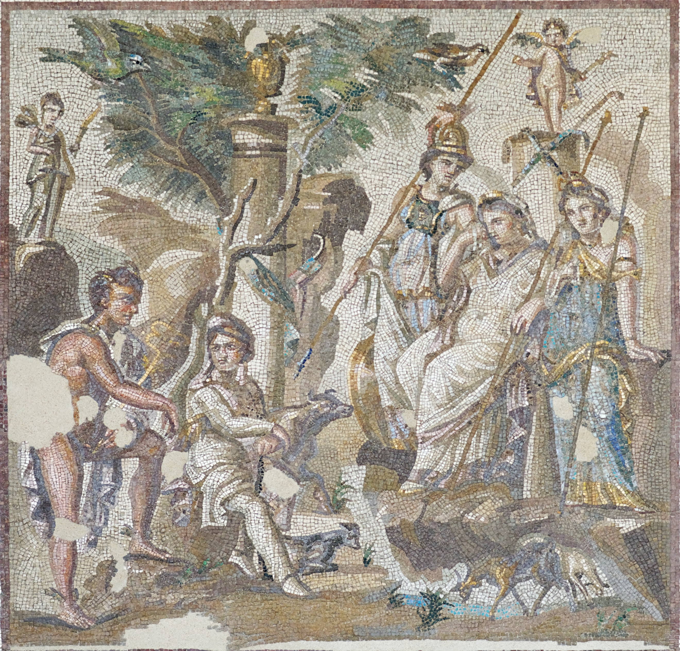 The Judgement of Paris. Marble, limestone and glass tesserae, 115–150 AD. From the Atrium House triclinium in Antioch-on-the-Orontes (Turkey).